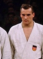 Judo, 1964 Olympics, left-right: Klaus Glahn